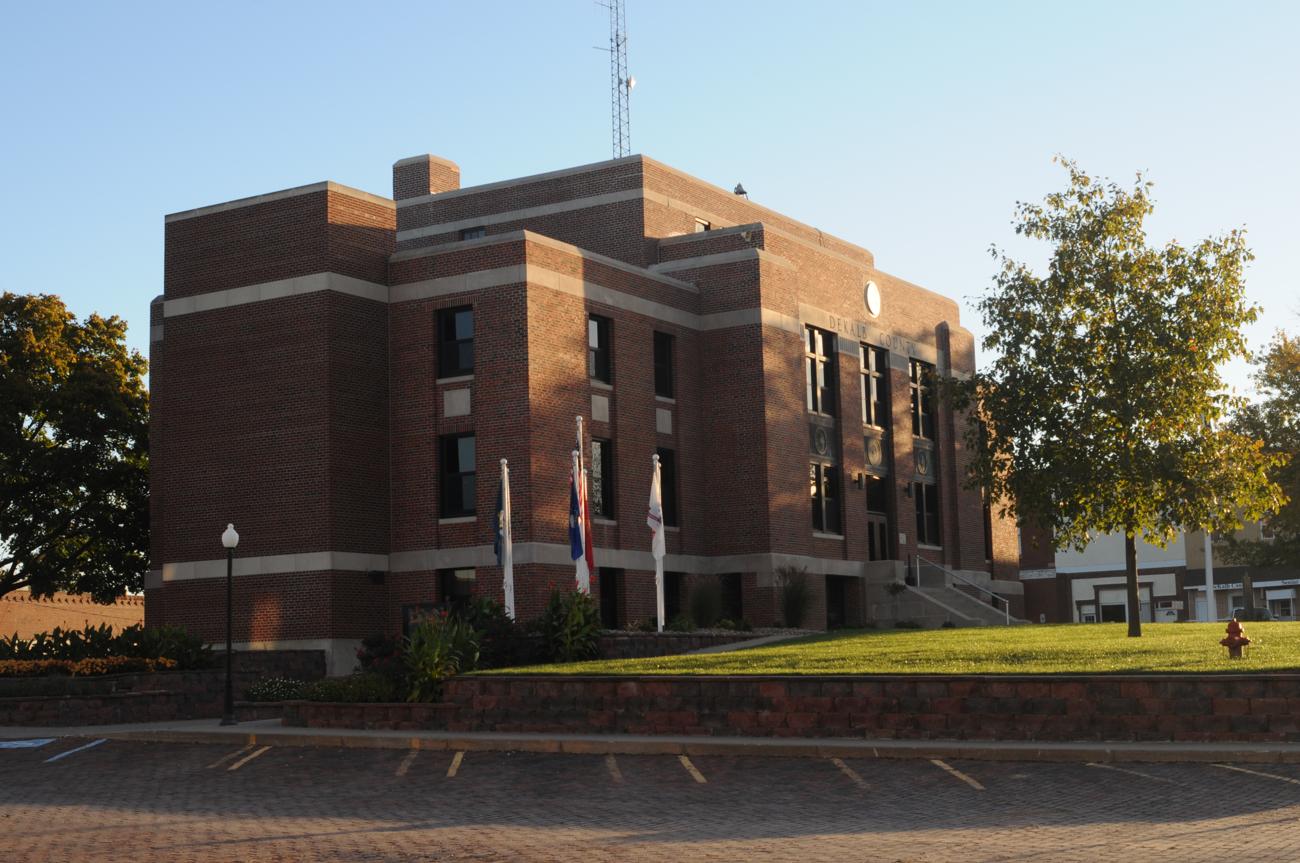 Missouri's DeKalb County courthouse as viewed from the southwest.